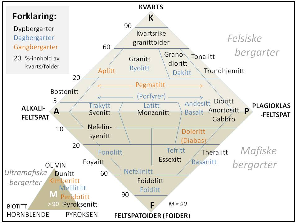 QAPF diagram in Norwegian, With 2 added rock types.